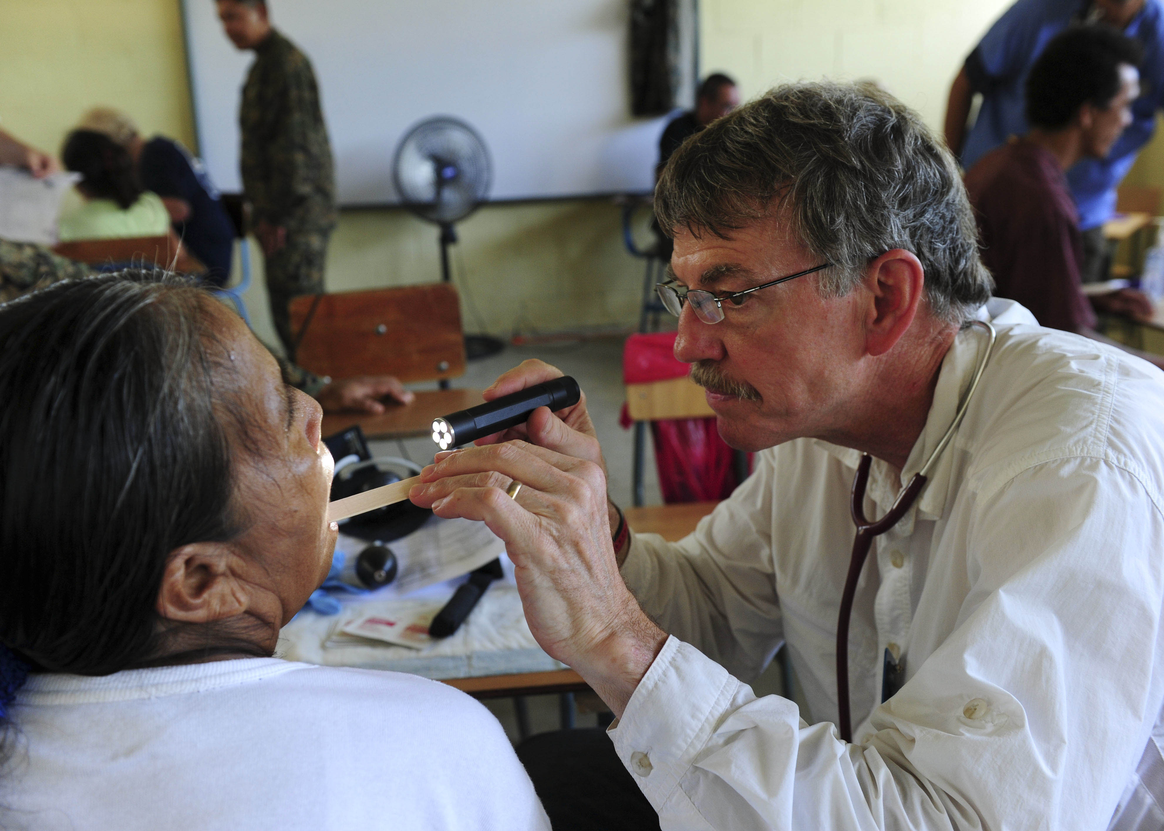 ALDEAS LAS PAVAS, Guatemala (Sept. 7, 2010) Dr. Arthur Hayward, a Project Hope volunteer, exams the mouth of a local woman during a Continuing Promise medical civic event in Aldeas Las Pavas, Guatemala. The multi-purpose amphibious assault ship USS Iwo Jima (LHD 7) is off the coast of Guatemala conducting the Continuing Promise 2010 humanitarian civic assistance mission. The assigned medical and engineering staff embarked aboard Iwo Jima are working with partner nation teams to provide medical, dental, veterinary and engineering assistance to eight different nations. (U.S. Navy photo by Mass Communication Specialist 2nd Class Jonathen E. Davis/Released)